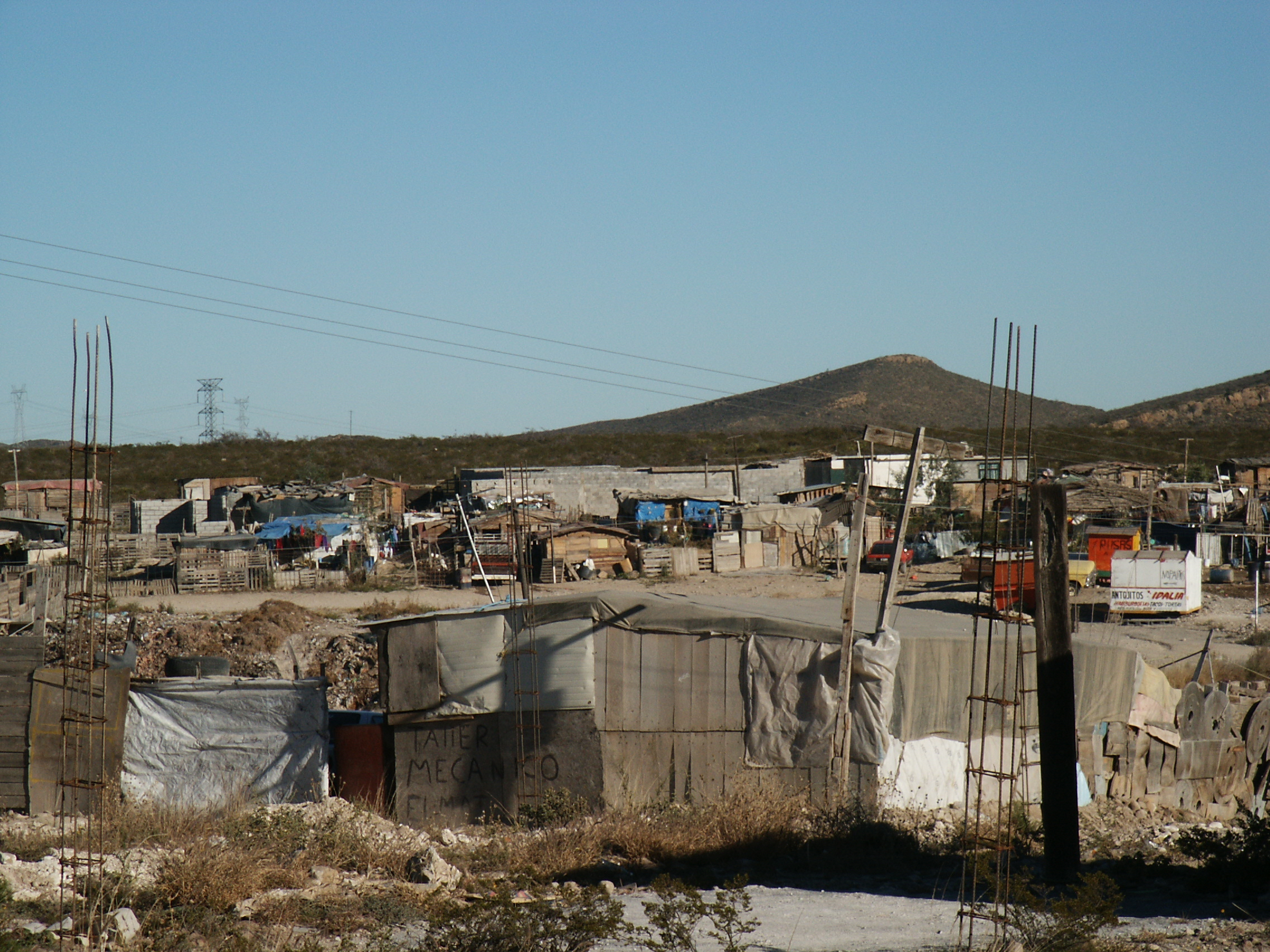 The other side of the tracks in Ramos Arizpe, Mexico.